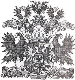 Ancestral coat of arms of Adlerberg